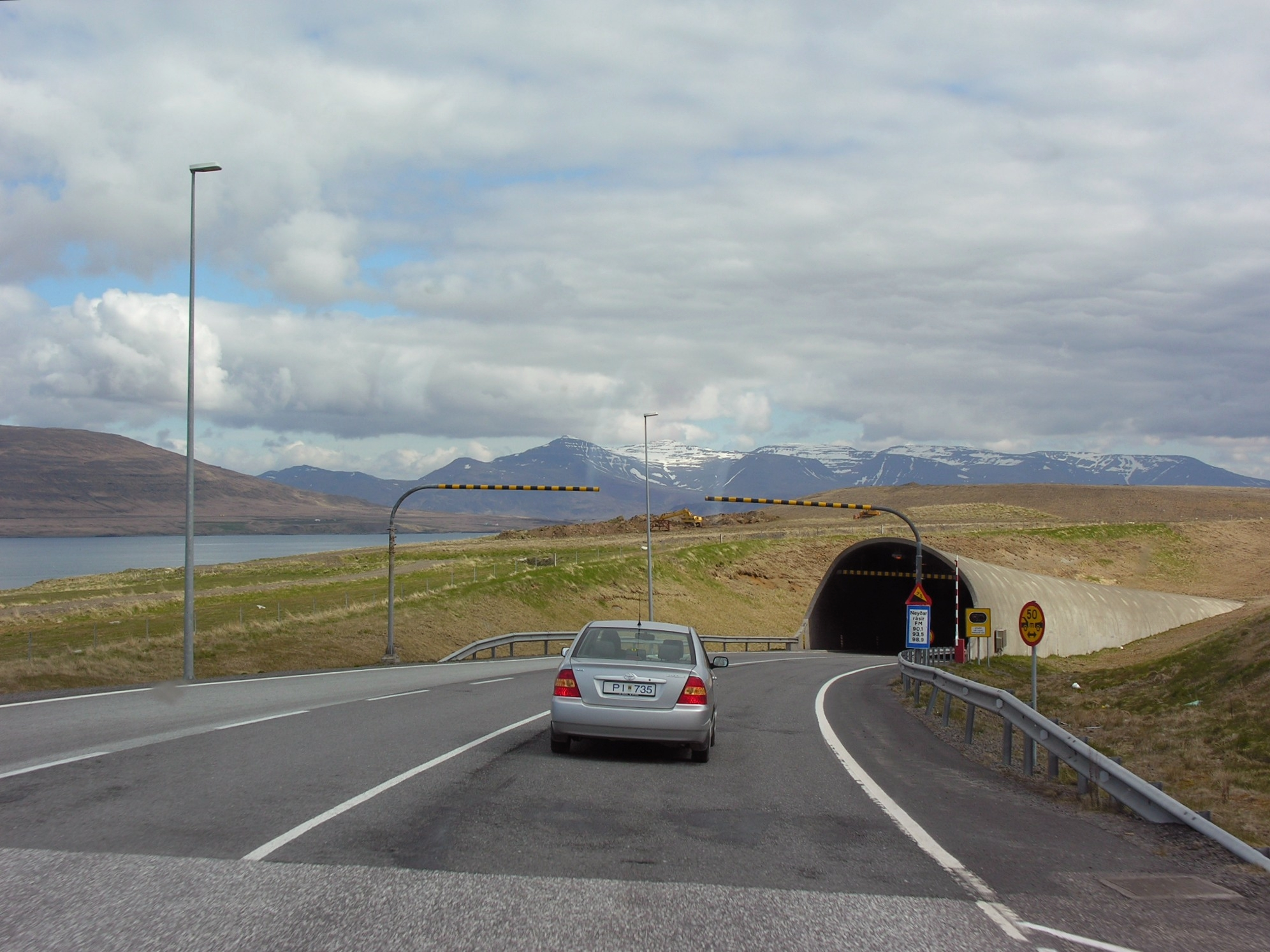 Iceland , views along road Road 1 in Iceland (Hringvegur). Picture is geocoded manually; if someone can contribute to the accuracy, please do so.